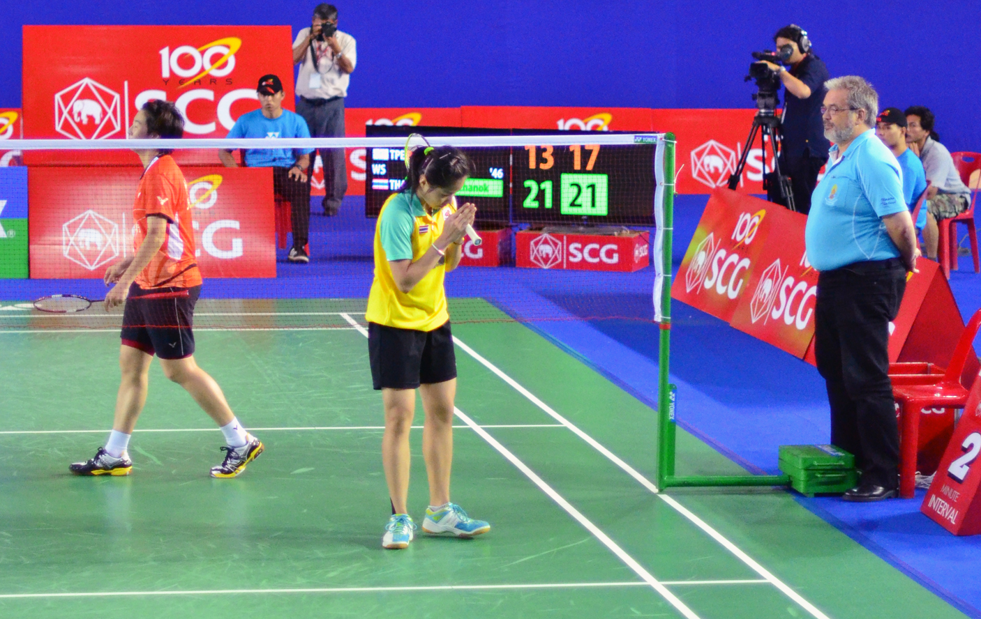 Pai & Ratchanok